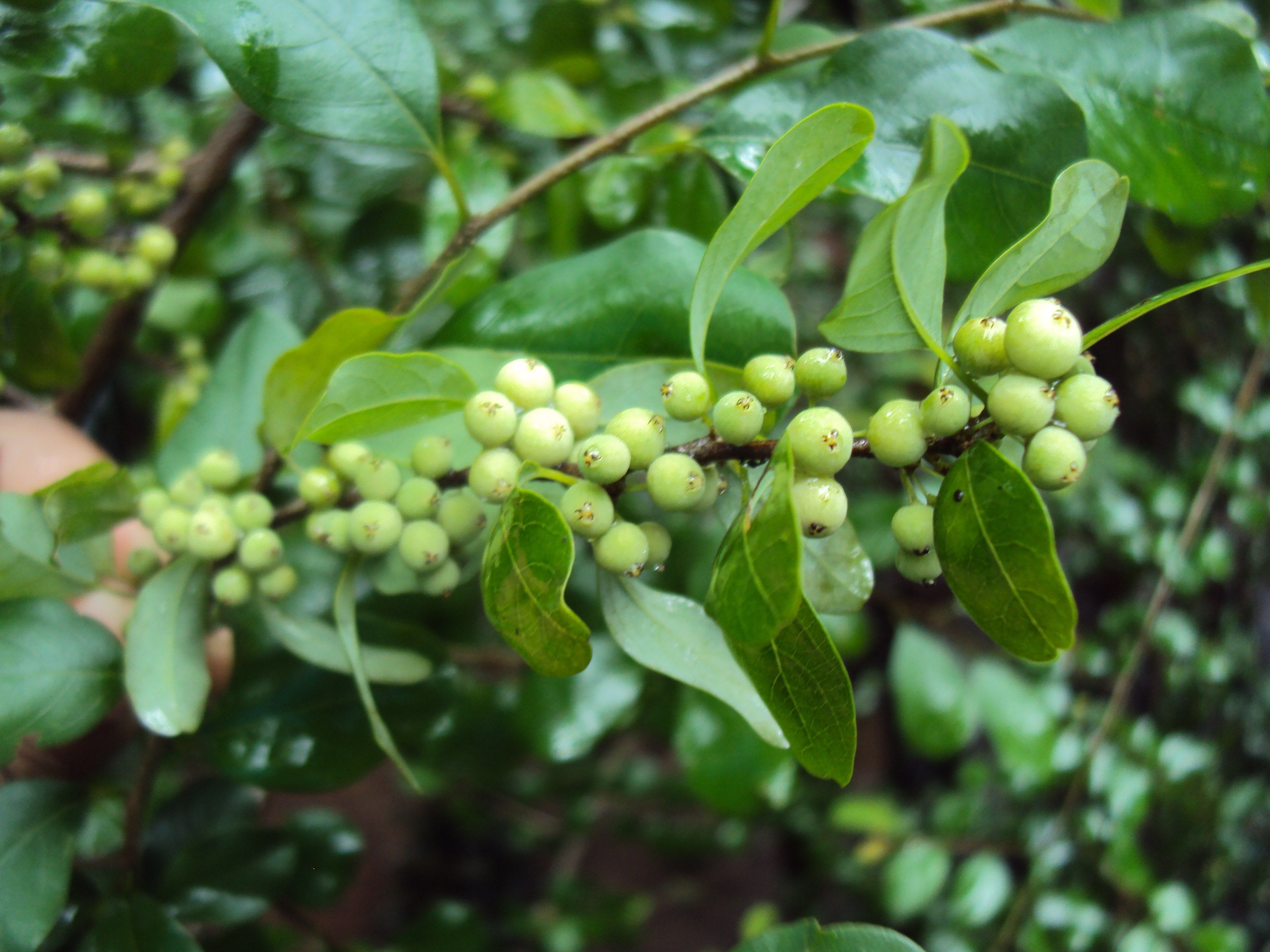 Commiphora wightii